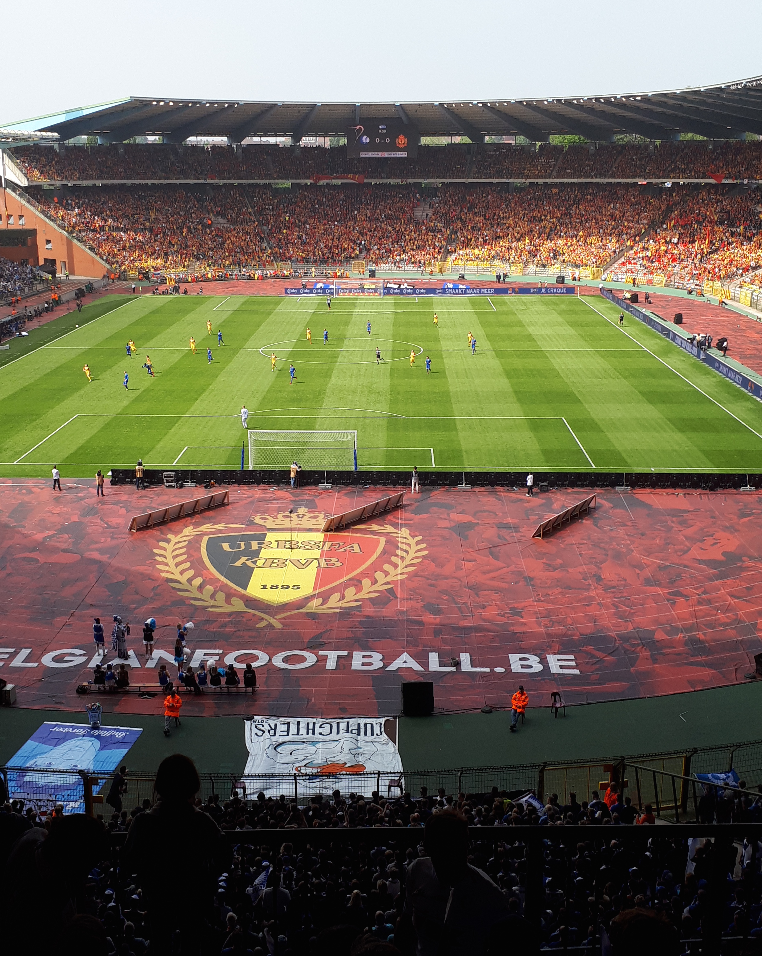 Cup Final Belgium KAA Gent - KV Mechelen on May 1st 2019 at the King Baudouin Stadium